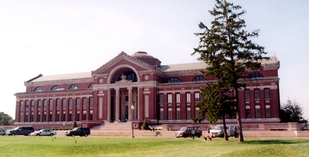 Roosevelt Hall, at the National Defense University, houses the National War College. The NDU is located at Fort Lesley J. McNair in Washington.